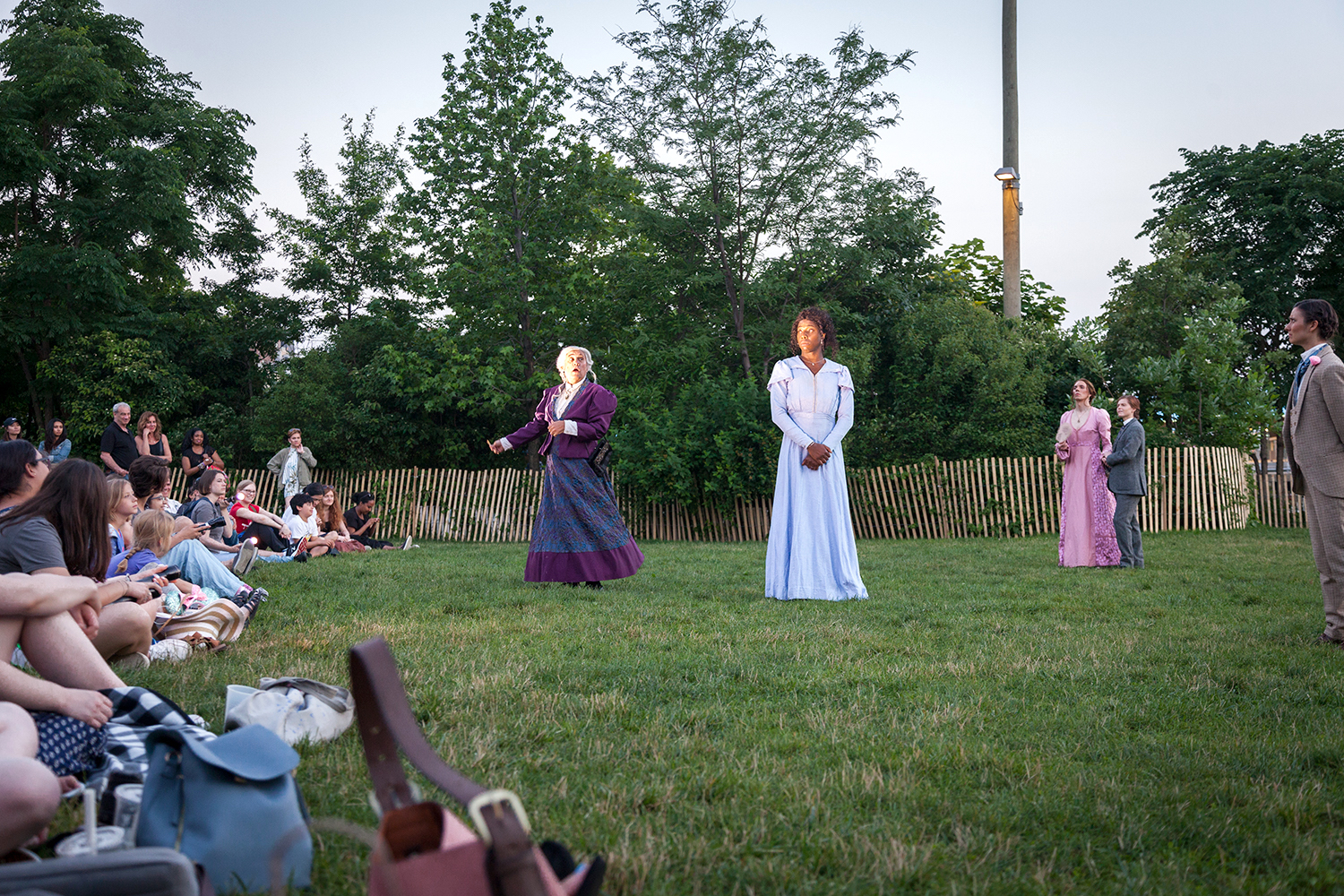 The Importance of Being Earnest performed by New York Classical Theatre on Harbor View Lawn in Brooklyn. Actors, left to right (gender roles are switched): John Michalski as Lady Bracknell, Ademide Akintilo as Cecily Cardew, Clay Storseth as Miss Prism, Kristen Calgaro as Jack Worthing (Ernest), Connie Castanzo as Algernon. (Photo gallery of DUMBO, Brooklyn)